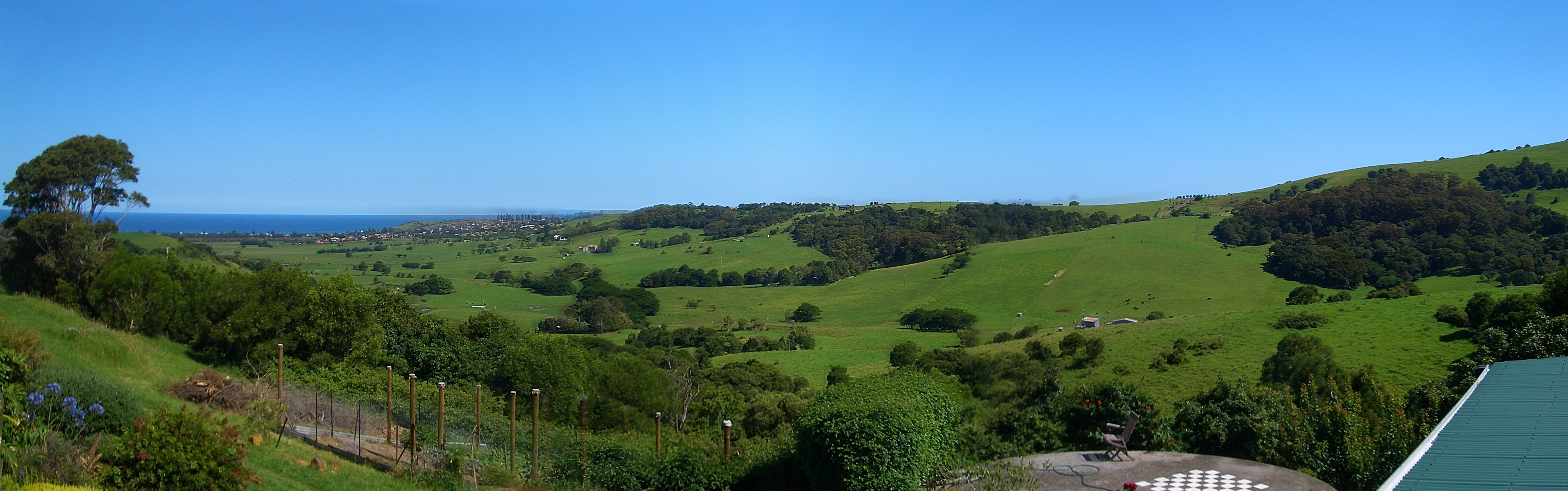 View of Gerringong area from the Rose Valley village, a few kilometers to the NW of the town